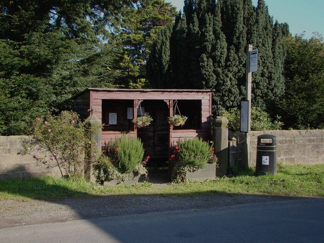 Sawley Bus Shelter It is possible that this shelter occupies a former gateway to the Parish Church.